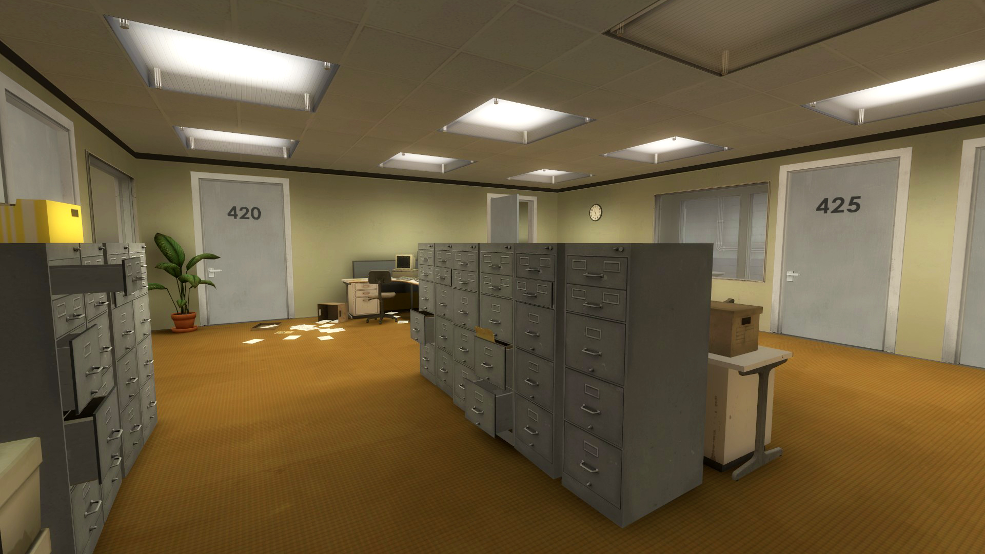 The Stanley Parable screenshot. Released in 2013, the game was developed by Galactic Cafe.